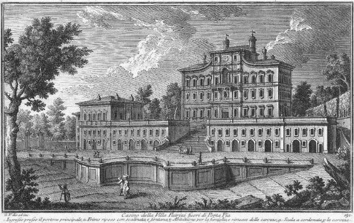 1) Main entrance; 2) First Terrace; 3) Houses of the servants; 4) "Cordonata", the carriage access to the villa.